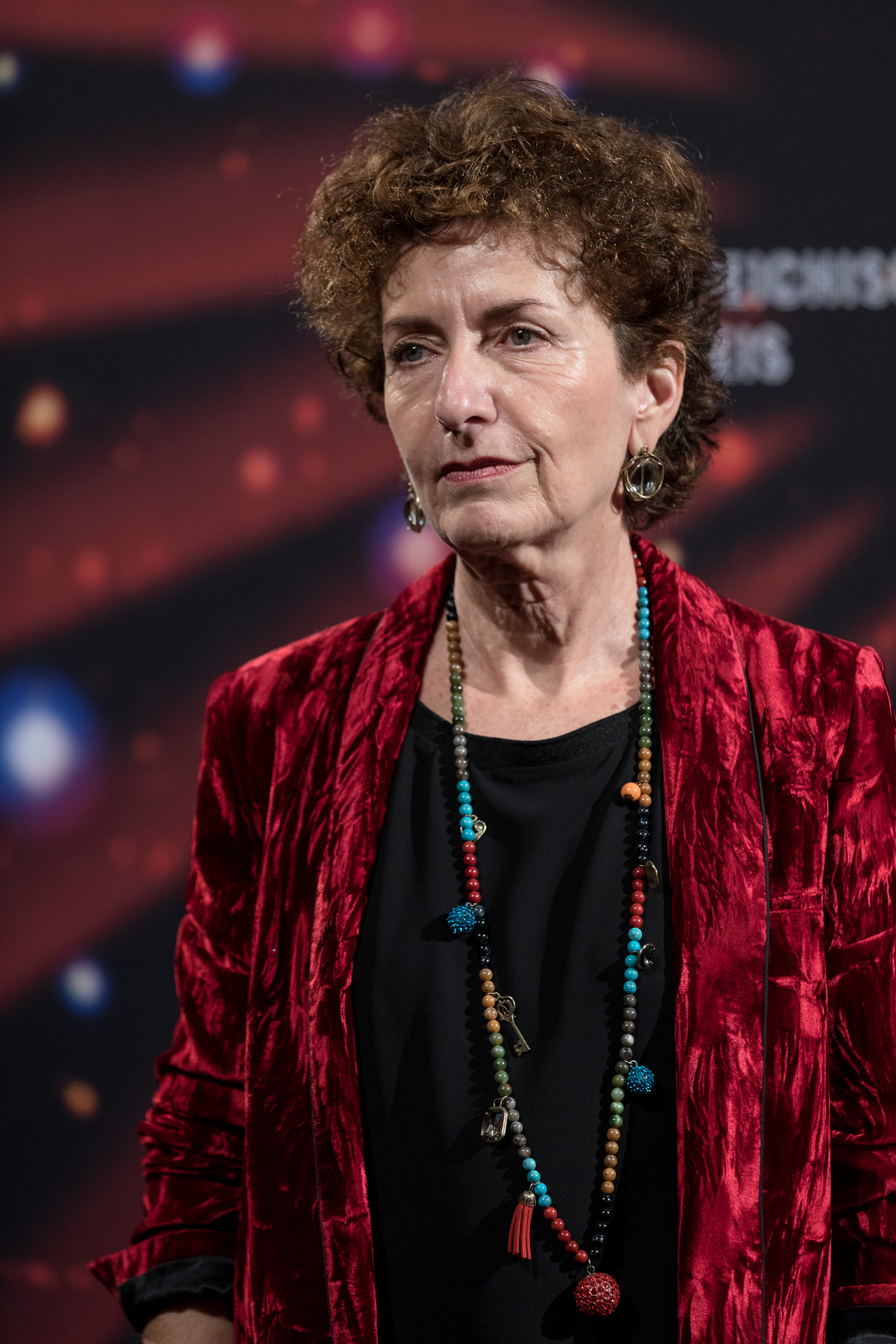 Ruth Beckermann, producer and director of Die Geträumten, at the Austrian Film Awards 2018 (Auditorium Grafenegg at Grafenegg Castle, Lower Austria,Austria).